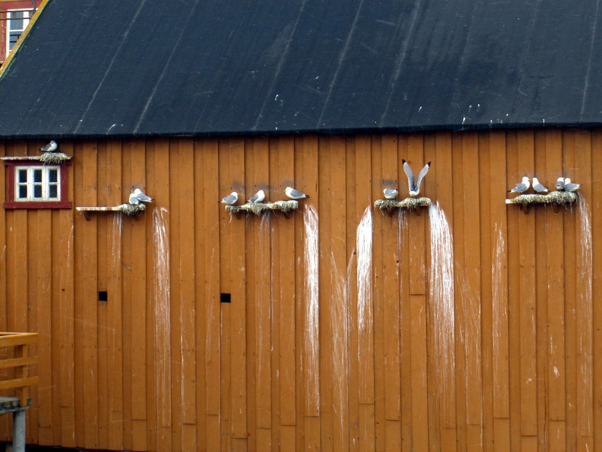 Kittiwakes perching on ledges on a wooden house in Vardø, Norway. Paths of excrements show they have been in the habit for a while.